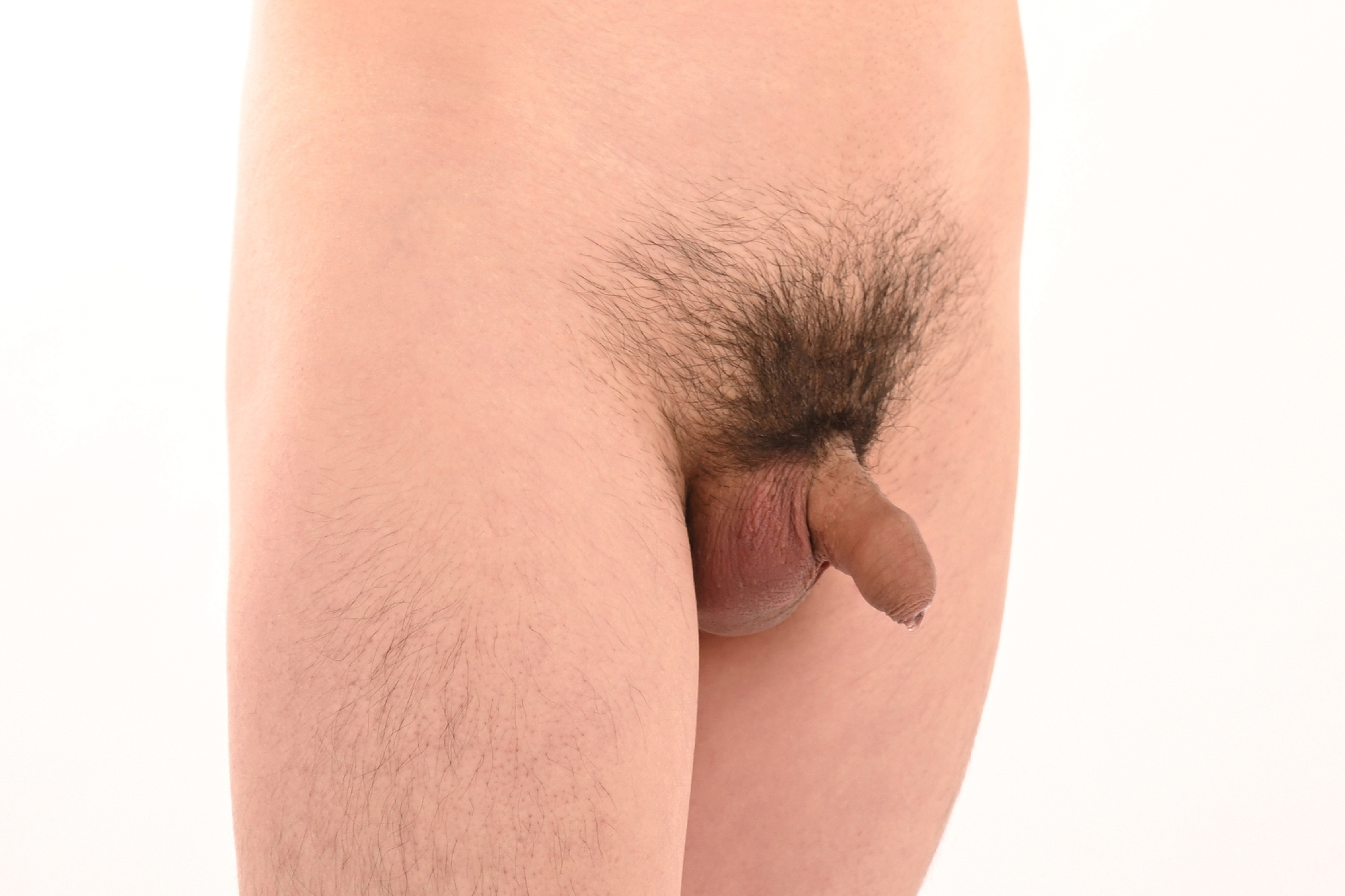 Male genitalia. This section of male genitalia was cropped from fine art photography. Model was in his 20s at the time.